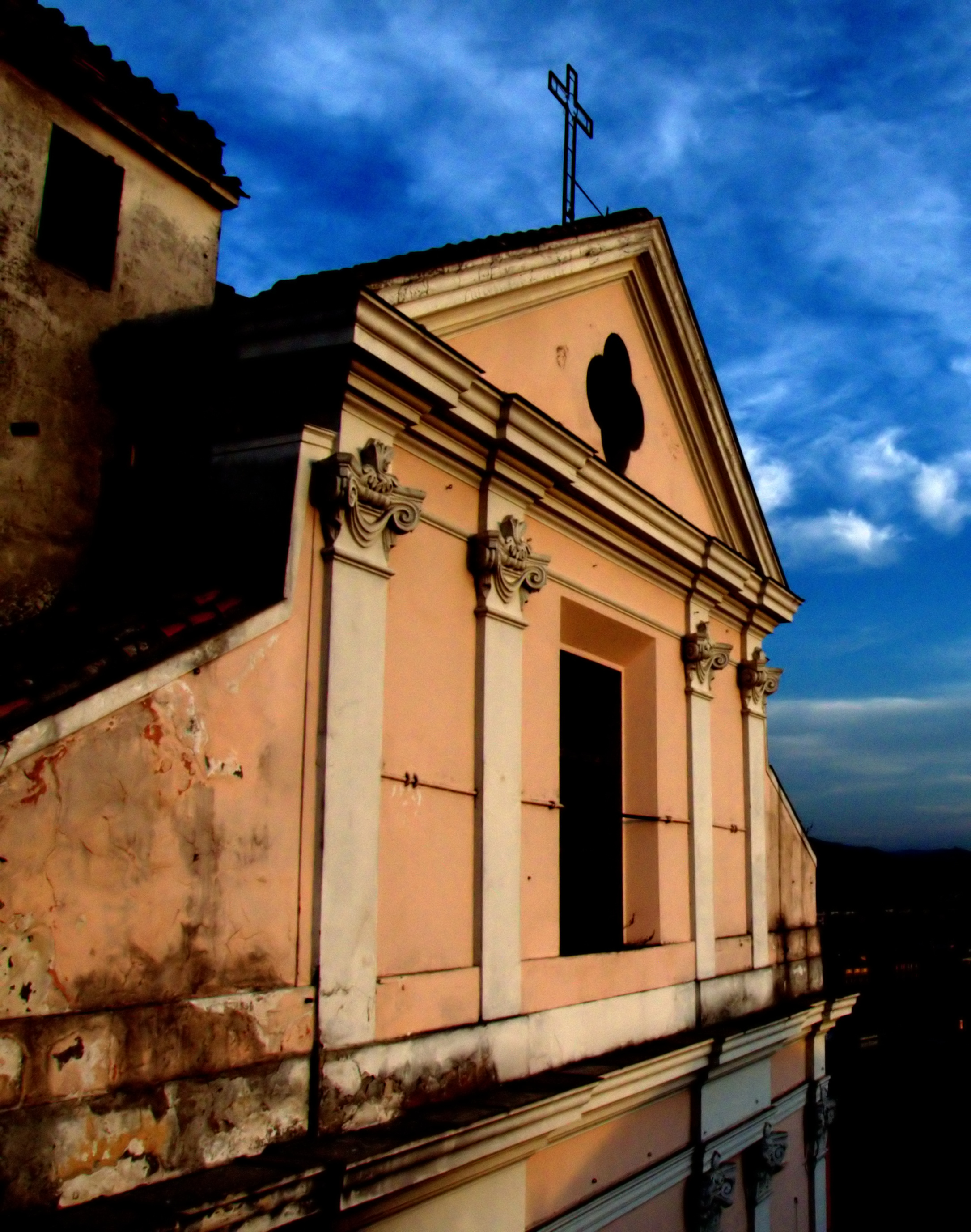 A detail of the façade of the Church of the Annunziata, Benevento (BN), Italia